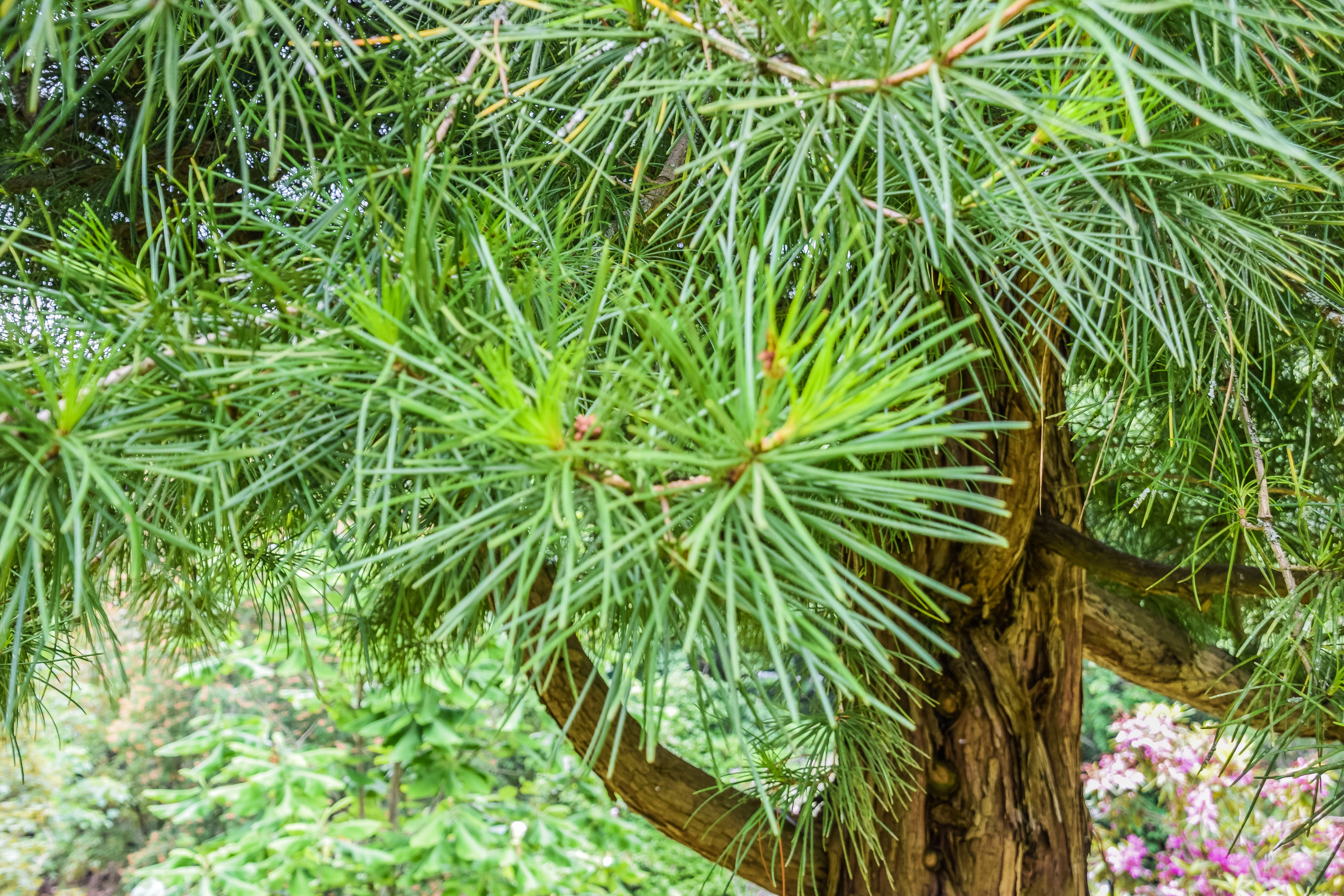 Sciadopitys verticillata in Hackfalls Arboretum, Gisborne Region, New Zealand